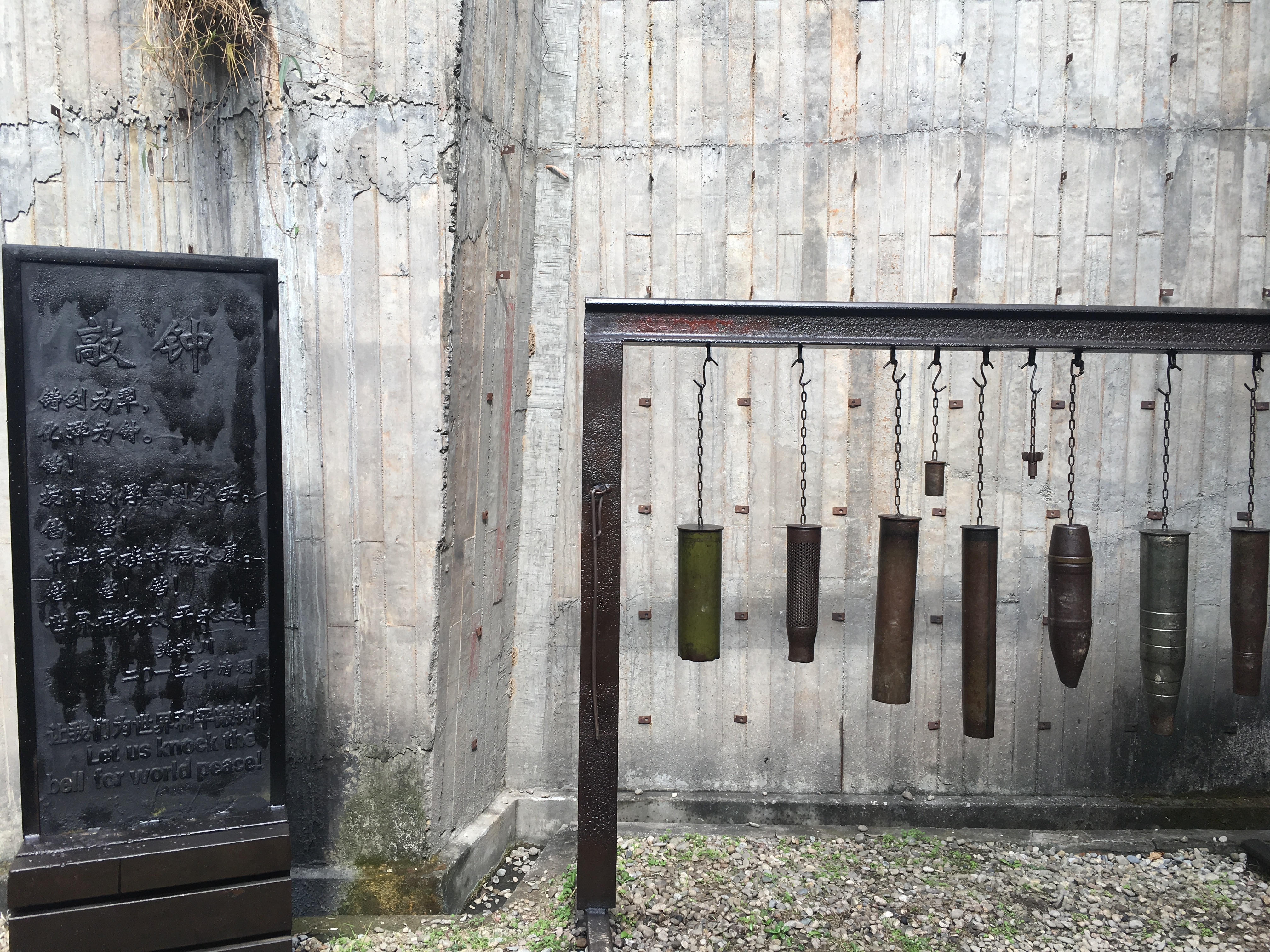 Bullet bell sculpture